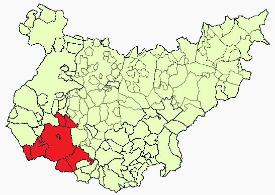 Sierra Suroeste